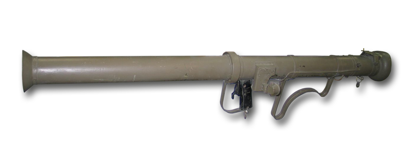 Bazooka, apparently 3.5-inch M20 (mislabeled "SAM-7 shoulder-launched anti-aircraft missile") in Batey ha-Osef Museum, Tel-Aviv, Israel.